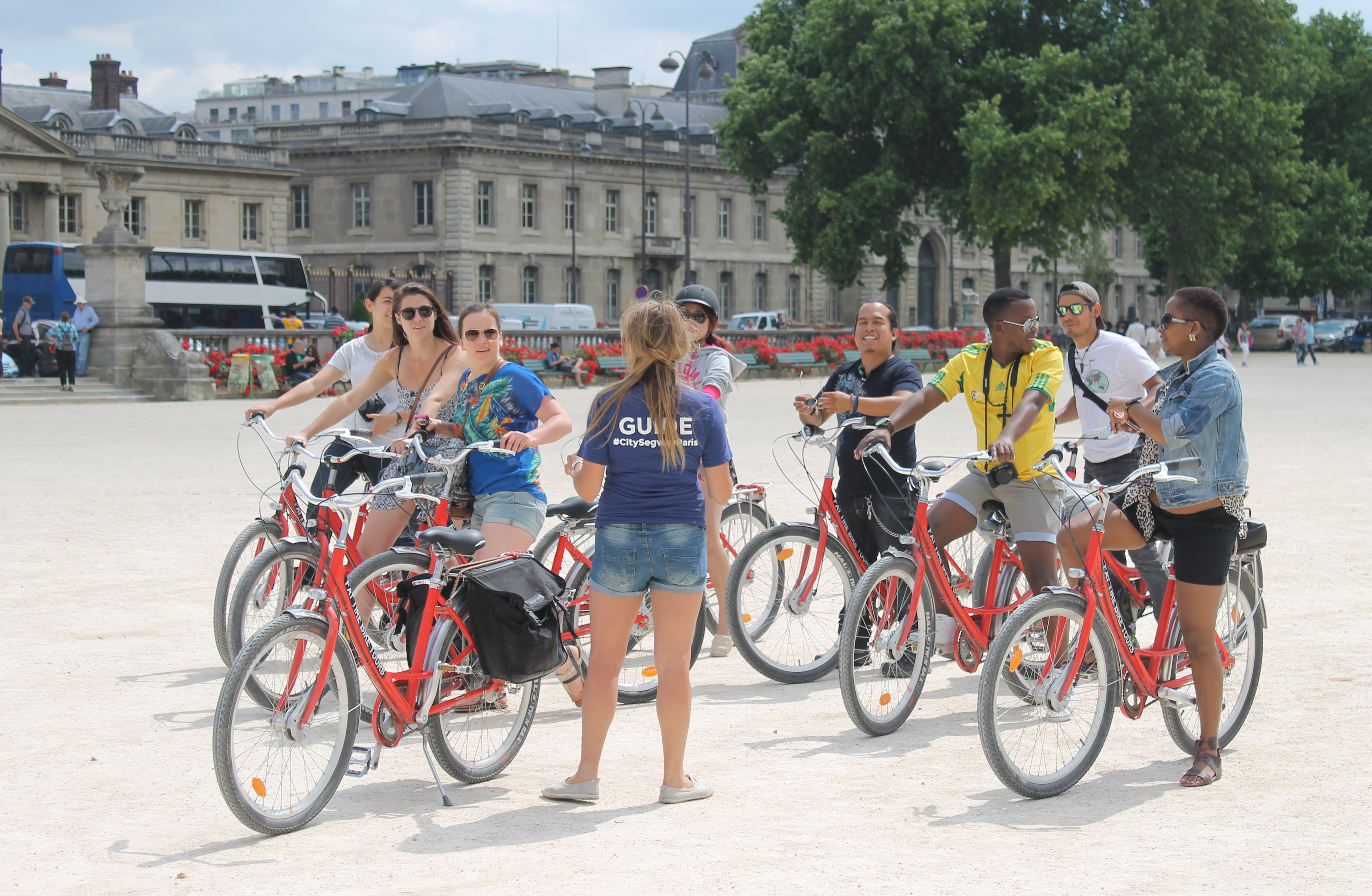 A biking guide group, Paris.